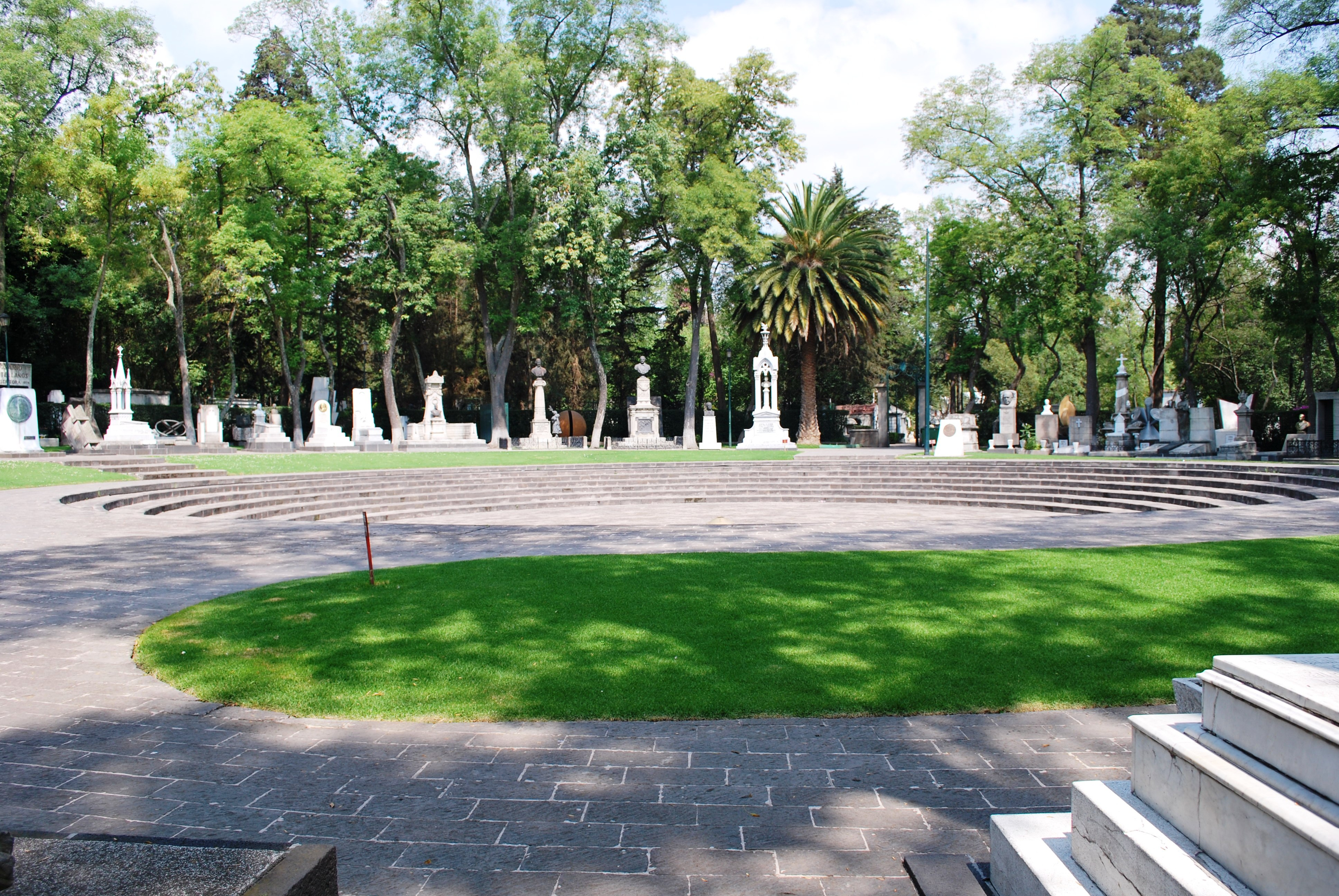 View of the Illustrious Person Rotunda of the Panteon Civil de Dolores cemetery in Mexico City